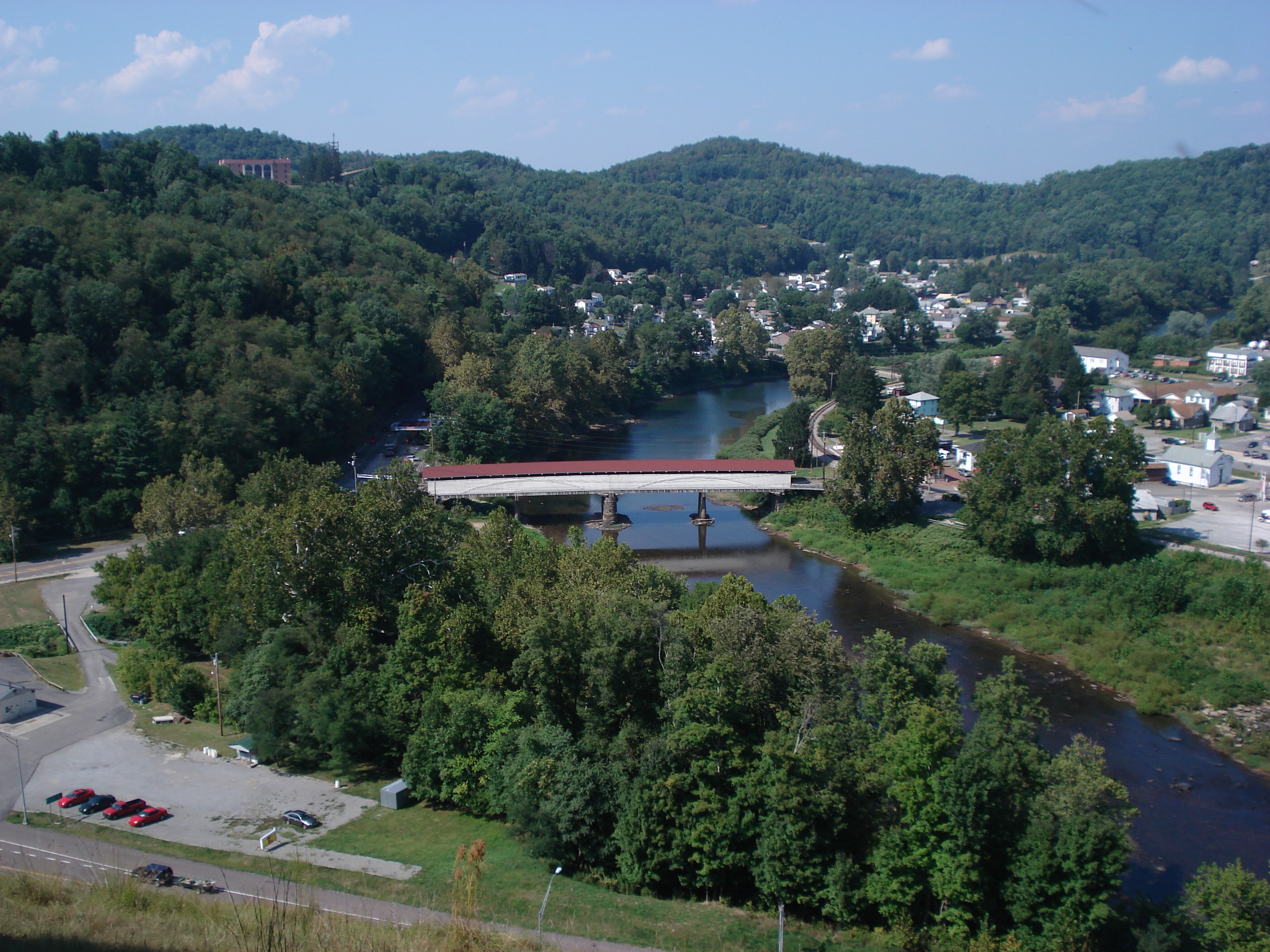 Philippi, Barbour County, West Virginia, showing historic Philippi Covered Bridge & Alderson-Broaddus College